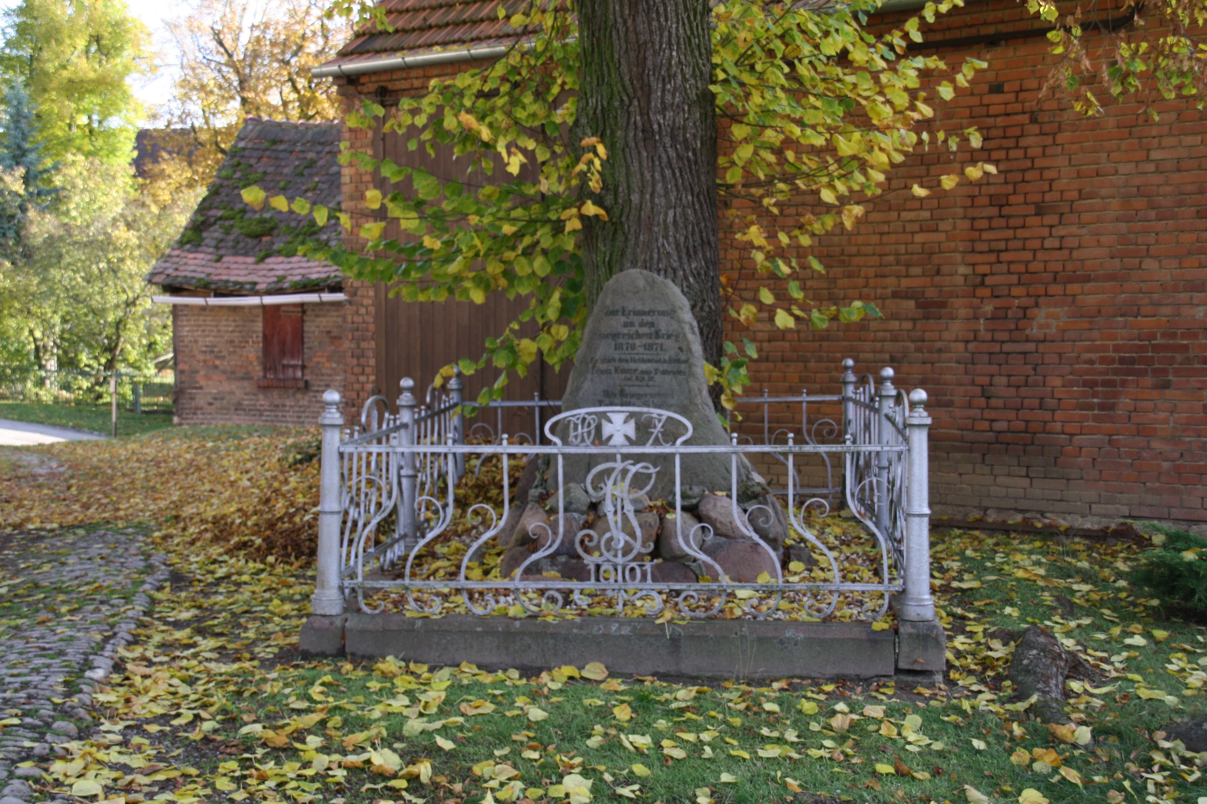 Monument for the war of 1870/71 in Tultewitz